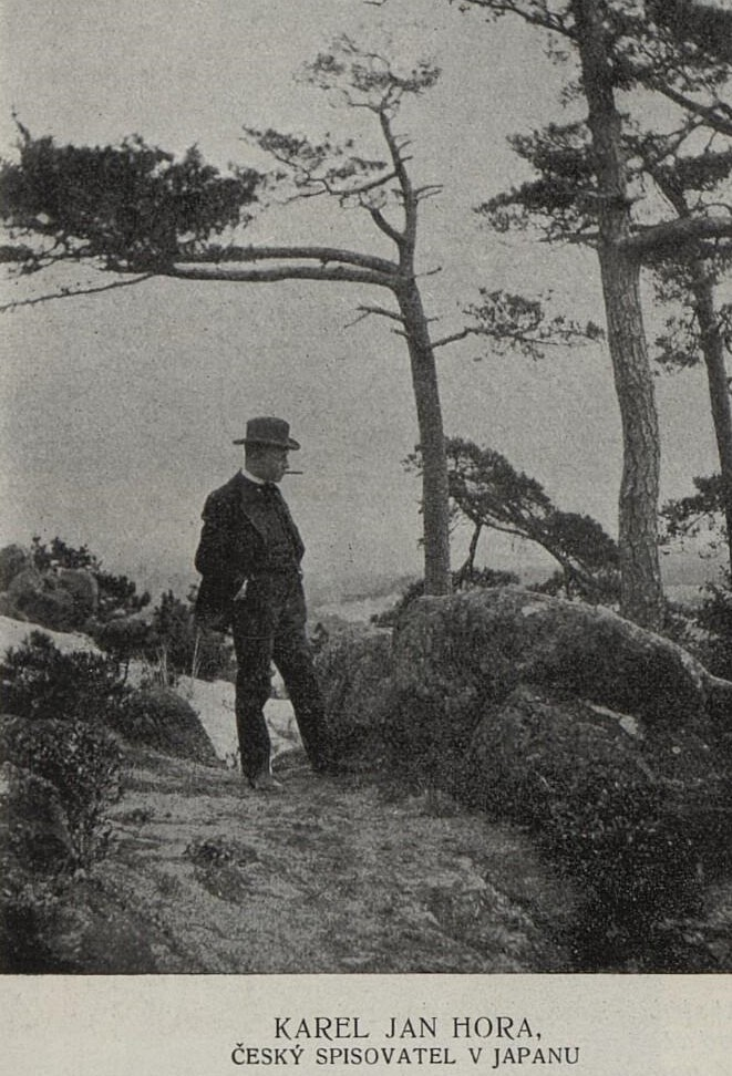 Karel Jan Hora, Czech engineer, diplomat, translator